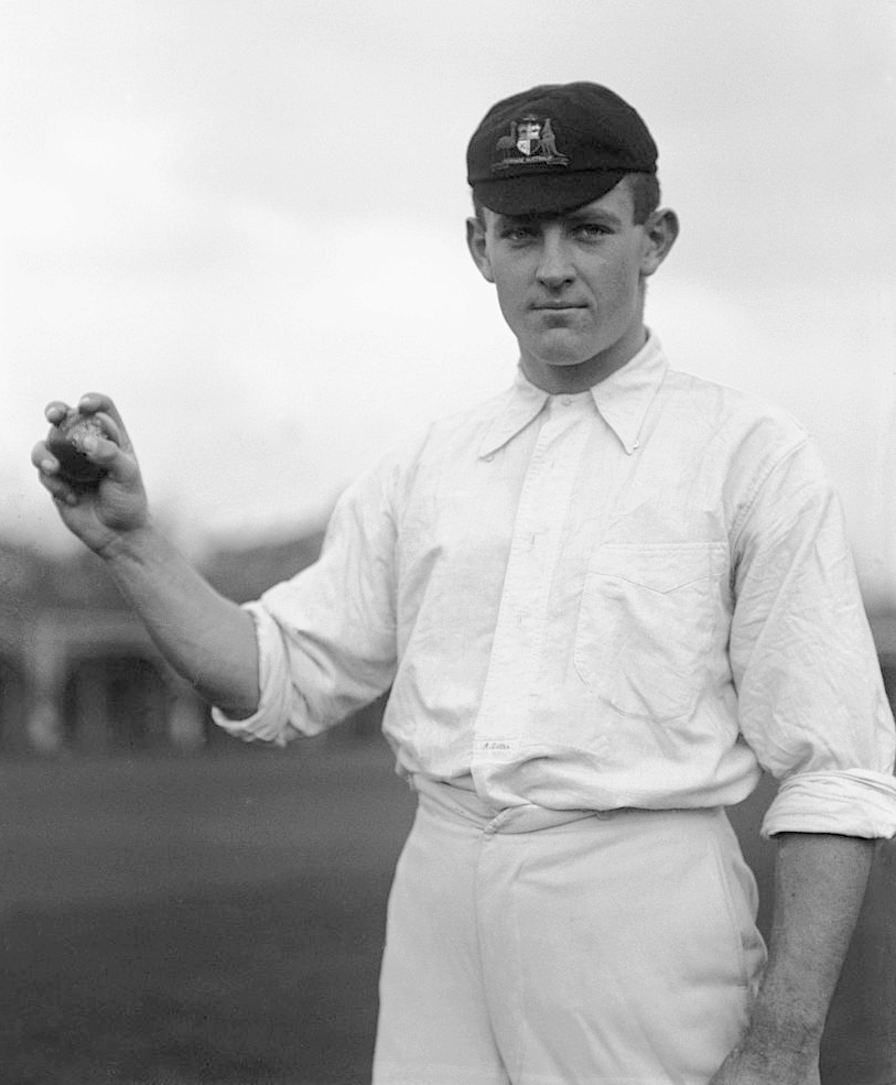 Albert Cotter, New South Wales and Australia, circa 1905.